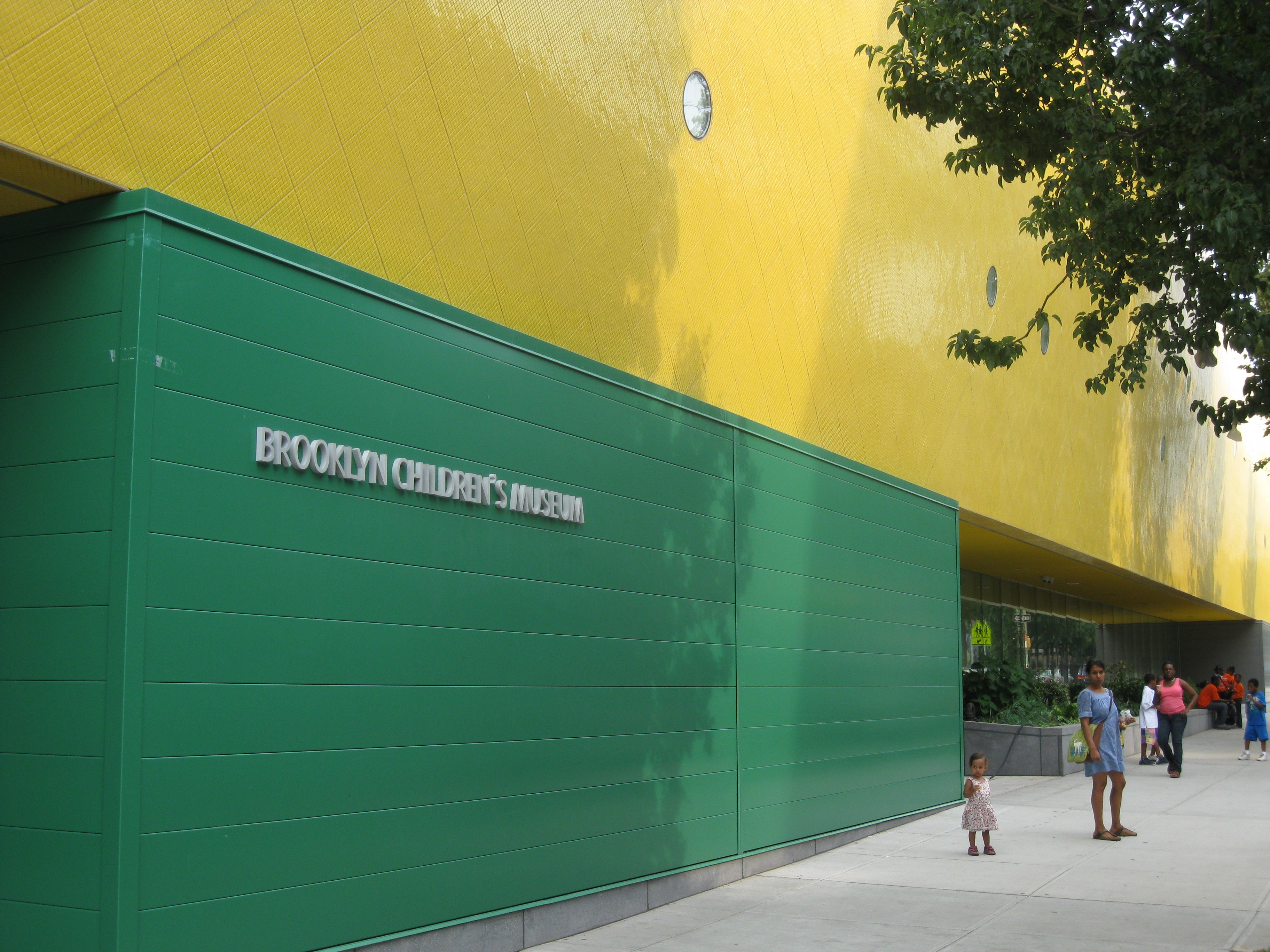 Exterior view of one side of the Brooklyn Children's Museum.